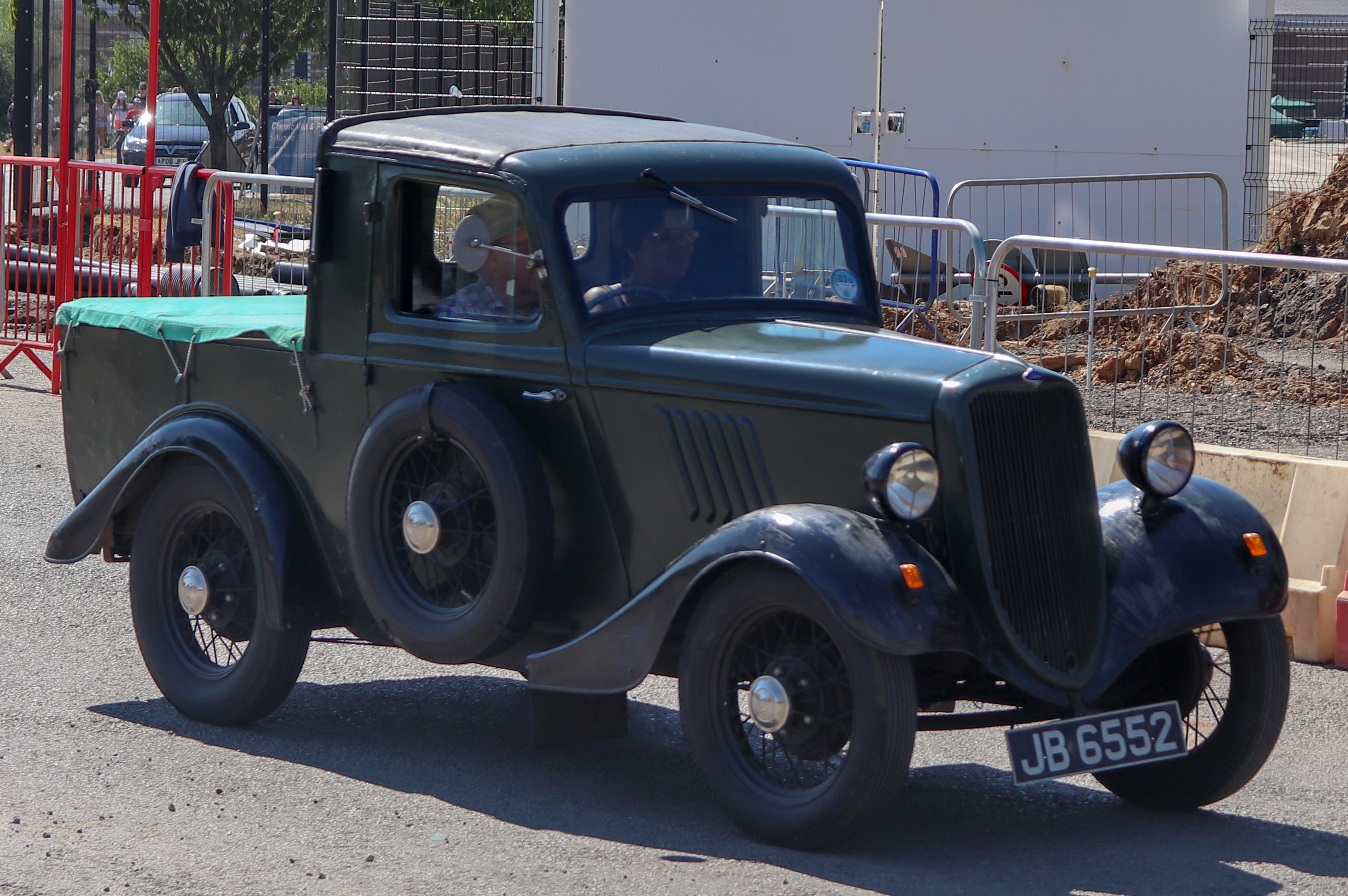 1935 Ford Model Y Pick-Up 930cc Taken at the British Motor Museum Old Ford Rally 2018, Gaydon